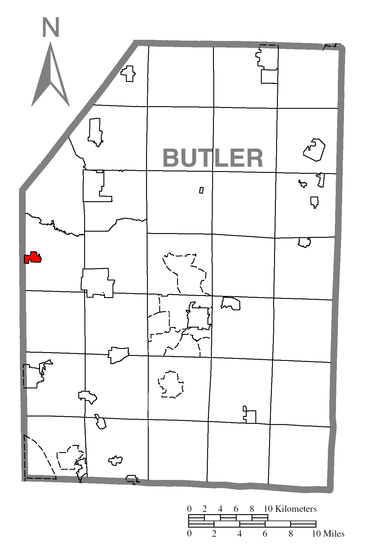 A map of Butler County showing Portersville, Pennsylvania (alternate) highlighted on the map.